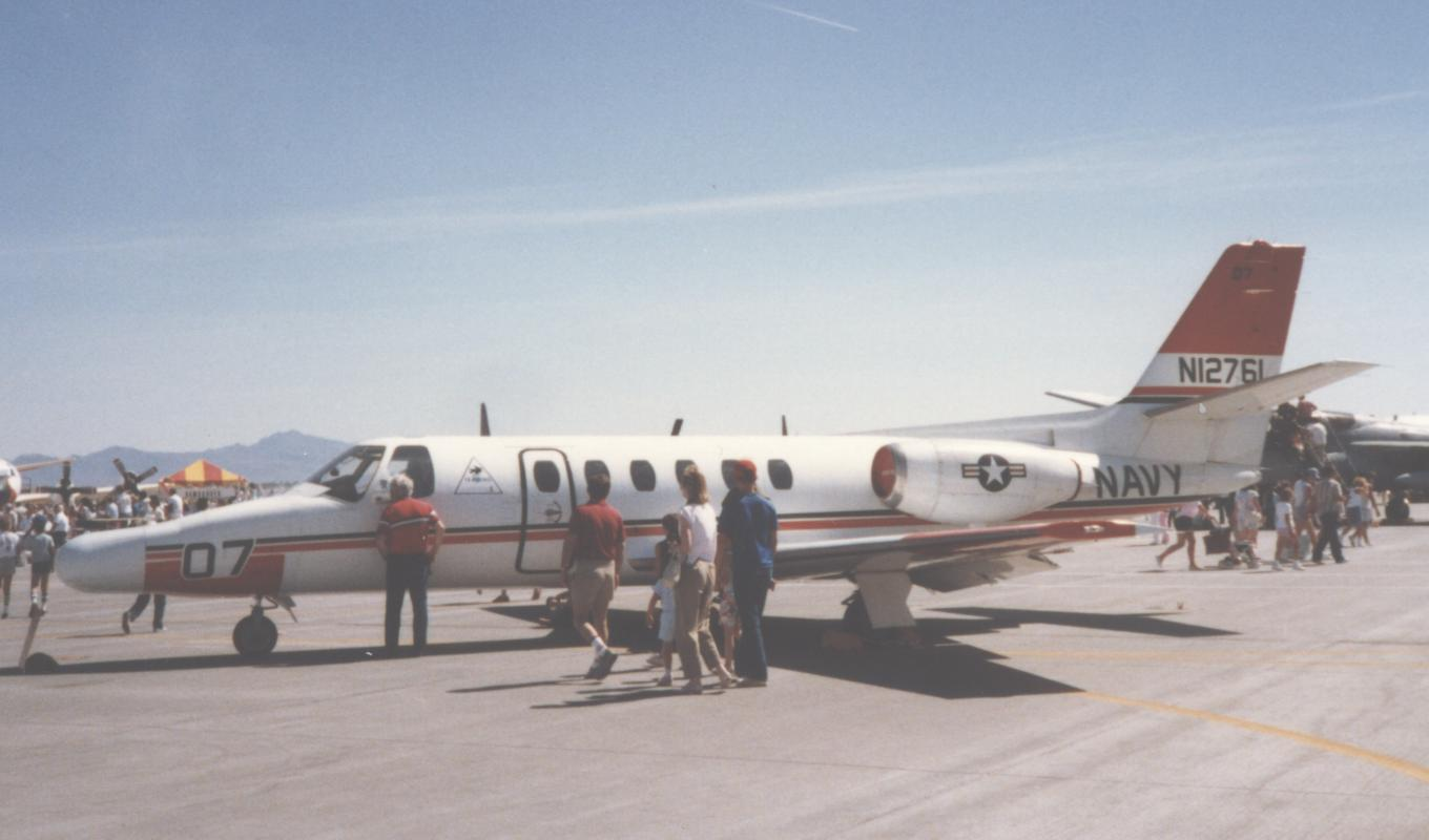 Cessna T-47A (Model 552) of the U.S. Navy, based at Pensacola NAS, Florida, at Nellis AFB, Nevada